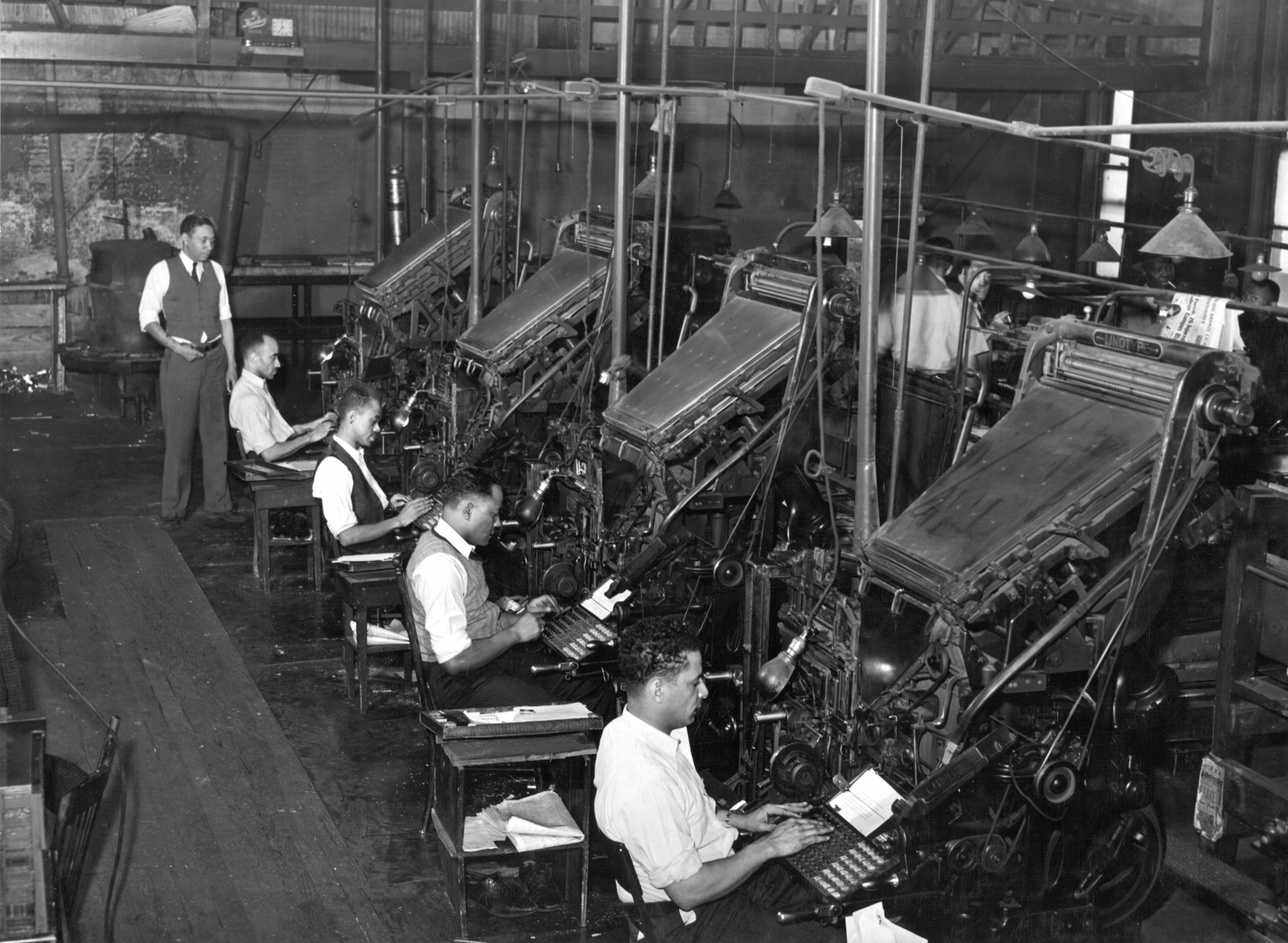 Linotype operators of the Chicago Defender, Negro newspaper. Chicago, Illinois